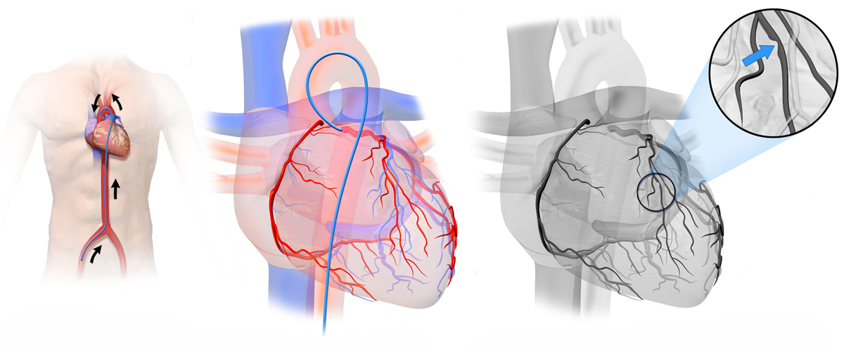 Coronary Angiography. This is an edited version of the source image made for use in the "Anatomist" iOS and Android app and shared here under the terms of the source image's Share Alike Creative Commons license.